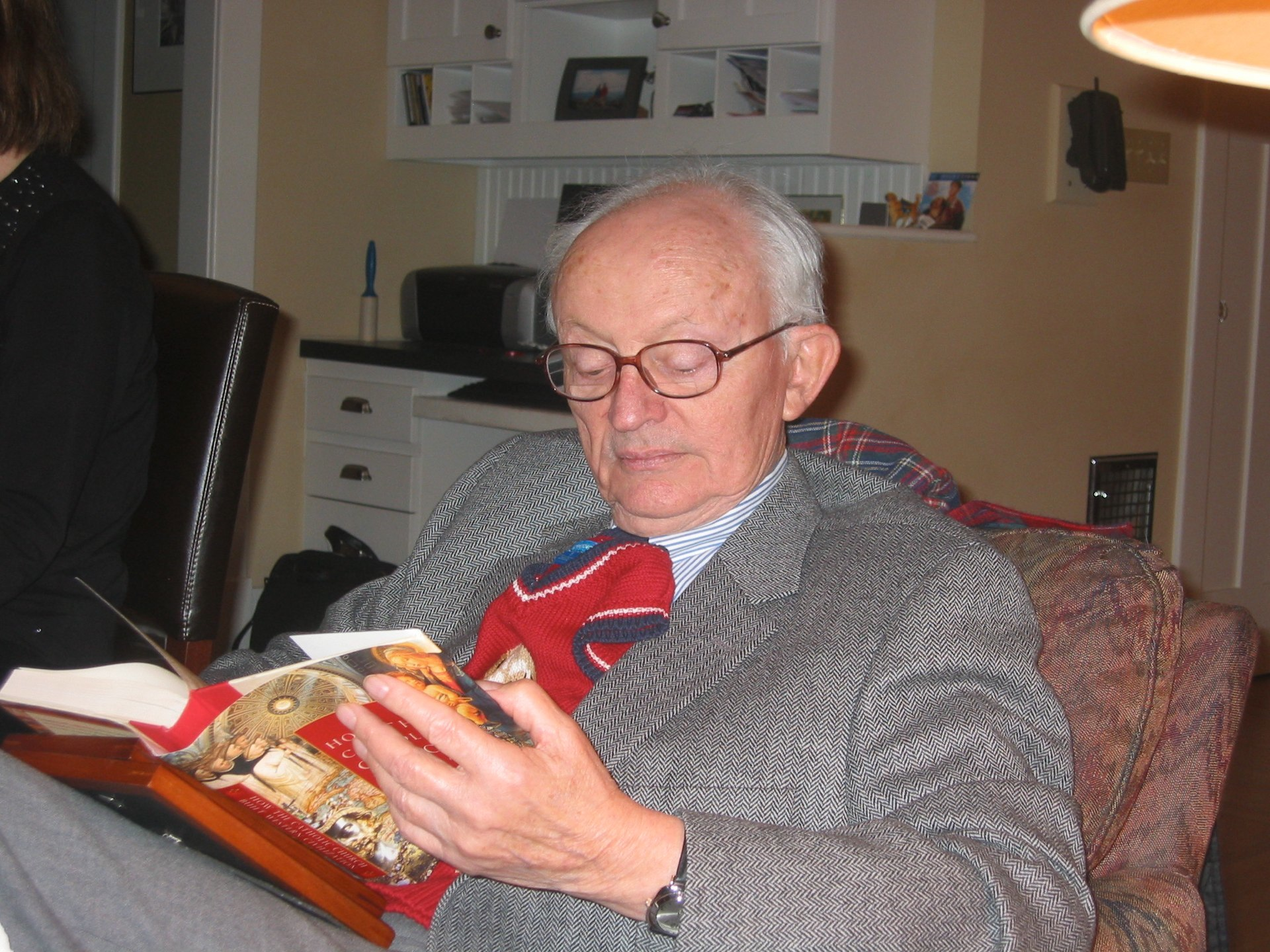 This is a photo of Stephen T. Worland, taken by his son-in-law, Alan B. Oppenheimer.